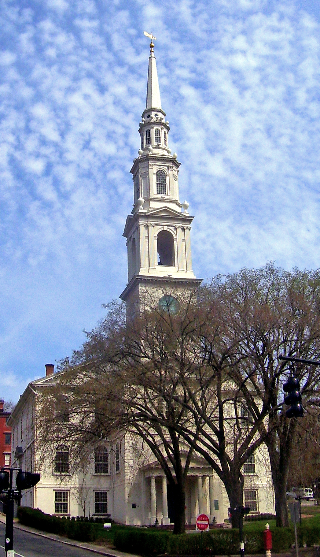 First Baptist Meetinghouse in Providence, RI, USA